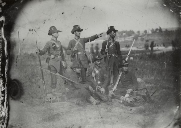 1861 tintype photograph from the Civil War photographic collection of the Wisconsin Historical Society, Madison, WI. Copied by the Wisconsin Historical Society, from a tintype presented by Majorie Allesi, Lakewood, New York, 1977. No copy negative number is indicated. Note: Union Army soldiers, from the 2nd Wisconsin Volunteer Infantry Regiment, Company C, of the Iron Brigade, wearing a mix of blue and gray uniforms and the distinctive, hardee hats, in which early war, gray, state militia uniforms, were eventually replaced, to avoid being mistaken, on the battlefield, as Confederate soldiers, from a rare, degraded, tintype, photograph, circa 1861.